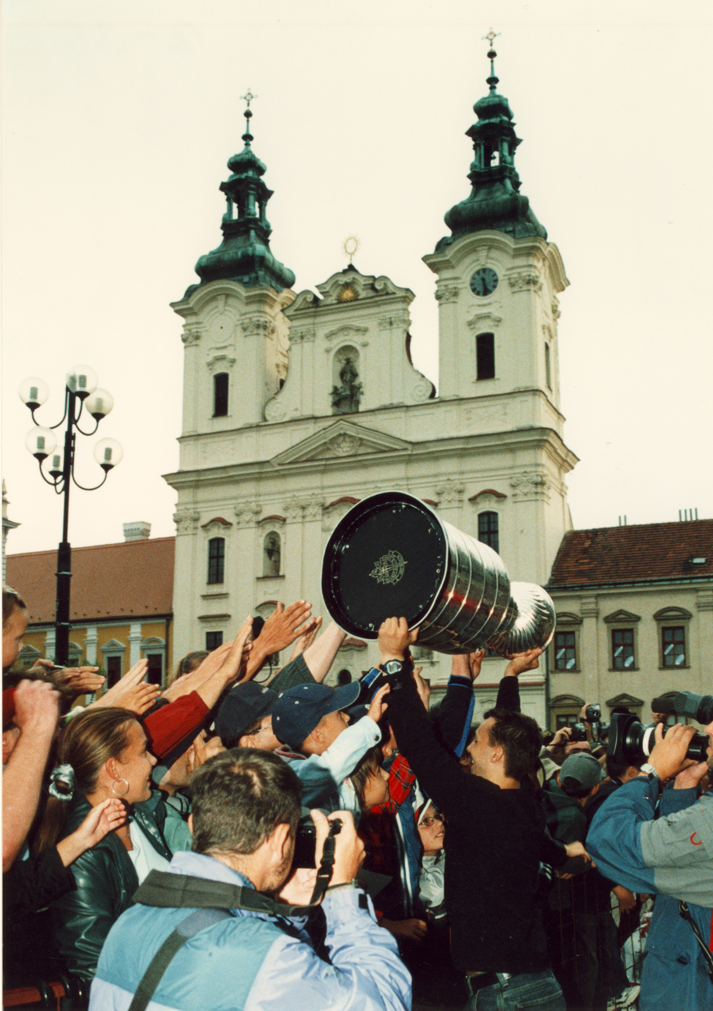 Stanley Cup Uherske Hradiste